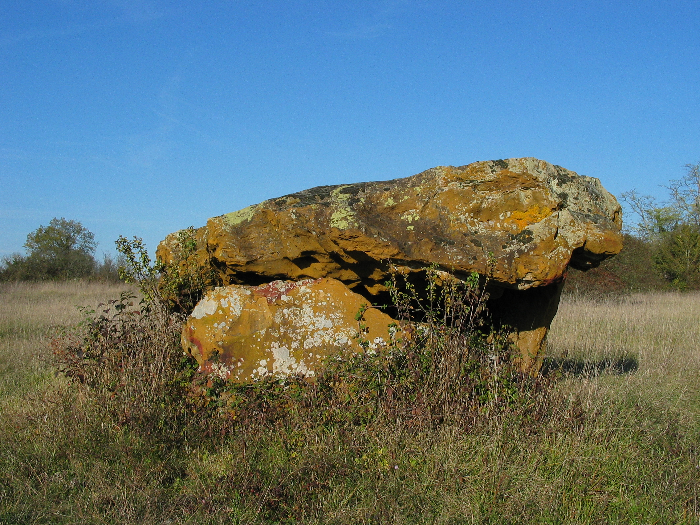 Dolmen, chez Vinaigre, near Ronsenac, Charente, France.